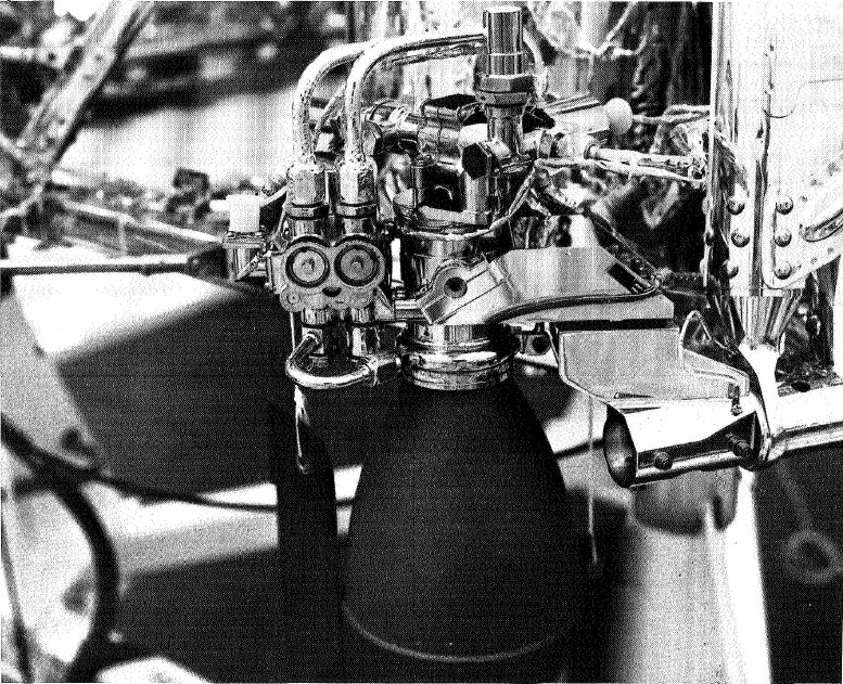 Surveyor-vernier-engine